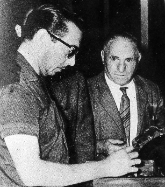 Andrés Framini. Argentine trade unionist. Voting in 1962.